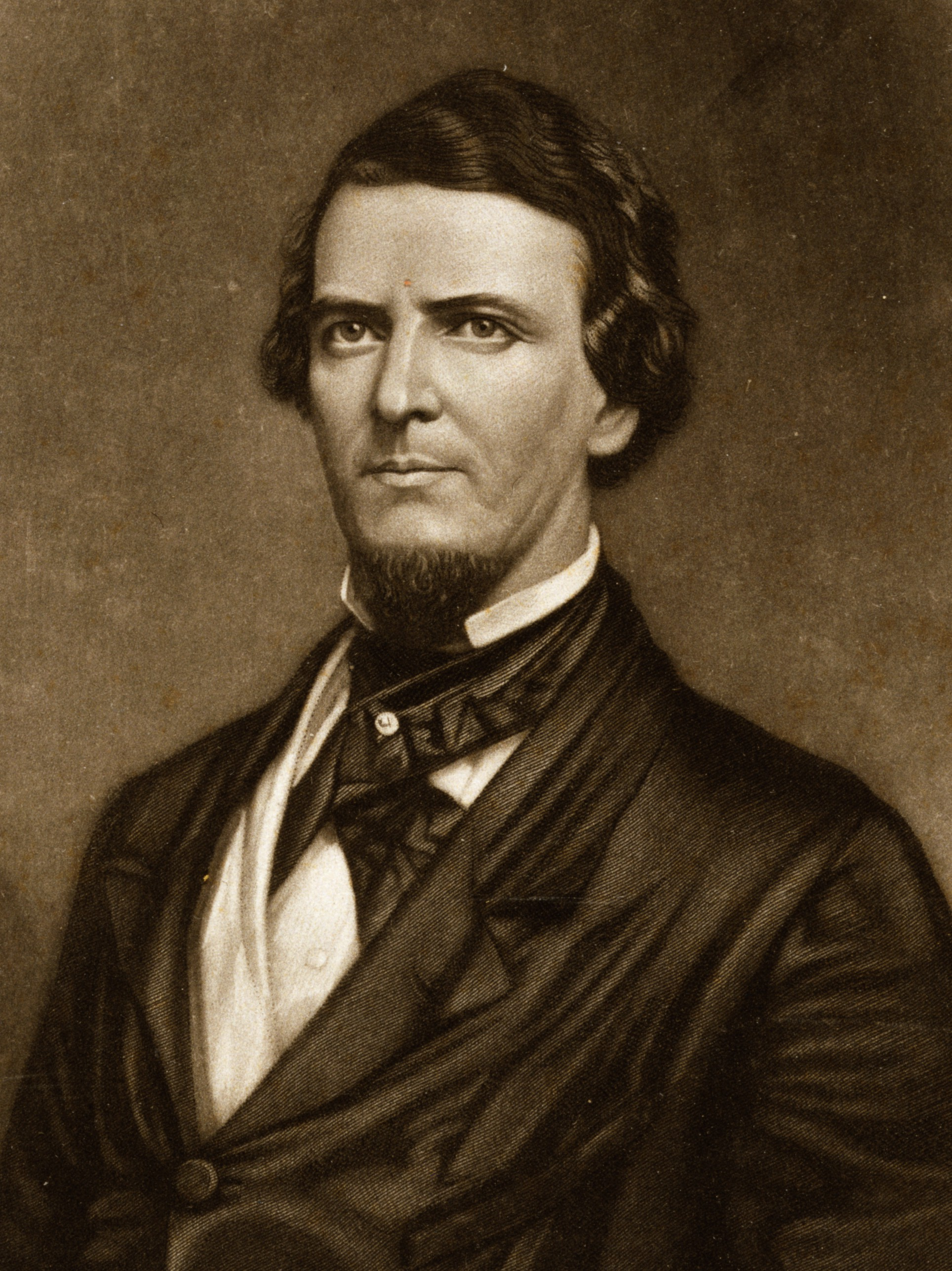 Preston S. Brooks, Representative in Congress of the U.S. from South Carolina